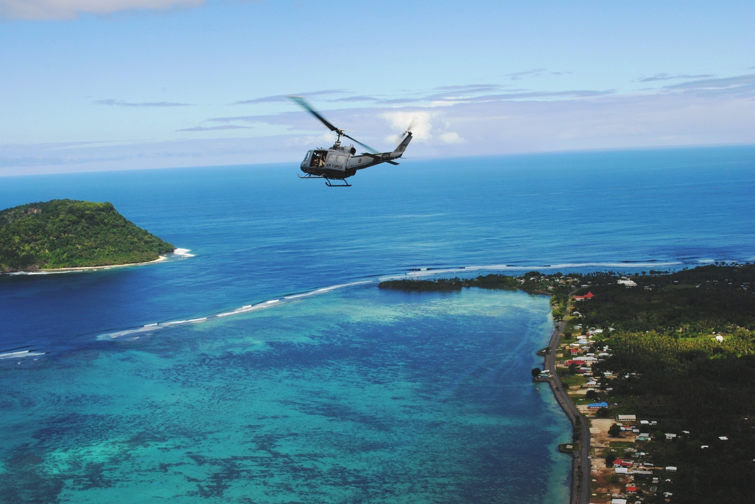 Aerial view of the eastern coast of Upolu island and Nu'utele, Samoa, 2012. The coastal road and the villages of Ulutogia, Vailoa and Lalomanu, as well as the Cape Tagapaga are visible. Photo: New Zealand Ministry of Foreign Affairs and Trade. Initially labelled "aerial view of Tokelau", which has proven to be inexact.